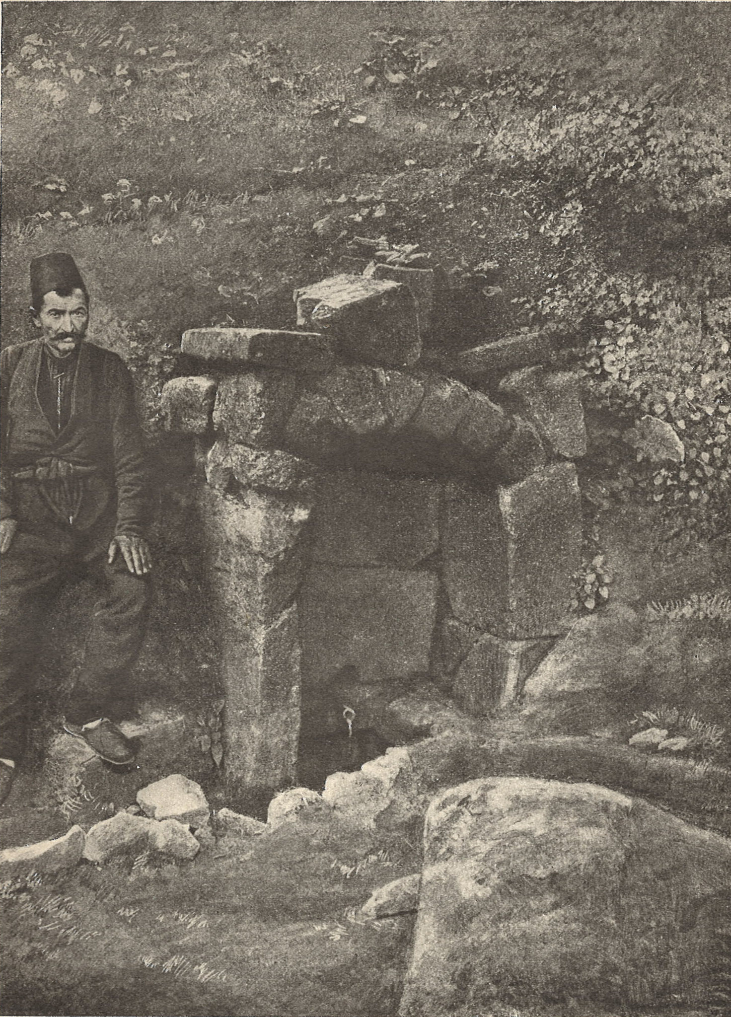 An old well in Surevani (now Svirevan, Şavşat, Turkey). G. O. Nersesiants sitting on the left. From Nicholas Marr's dairy of his travels to Shavsheti and Klarjeti (1911).